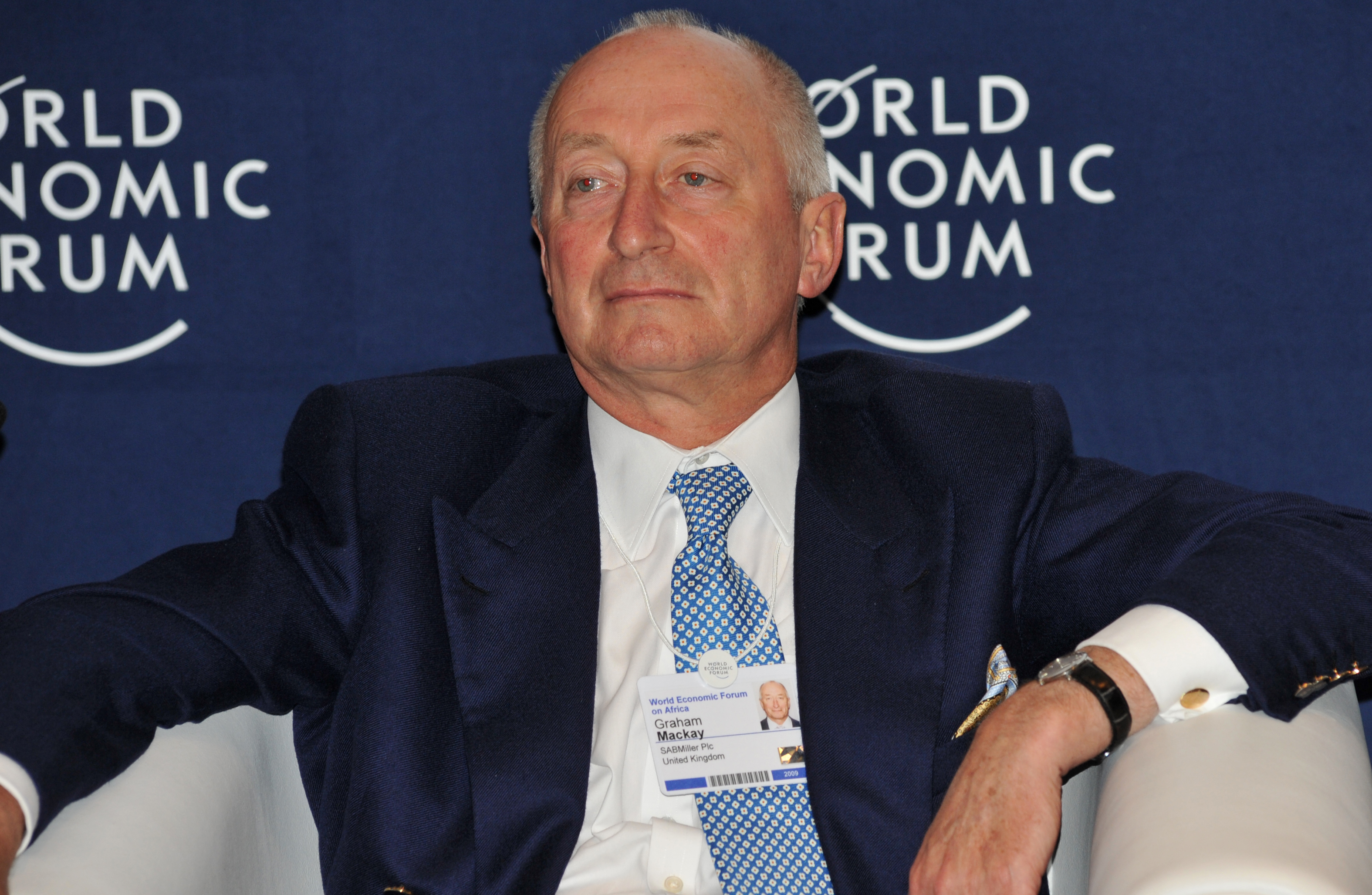 CAPE TOWN/SOUTH AFRICA, 11JUN2009 -Graham Mackay, Chief Executive, SABMiller, United Kingdom; Co-Chair of the World Economic Forum on Africa, Millennium Development Goals meeting held During the World Economic Forum on Africa 2009 in Cape Town, South Africa, June 11, 2009